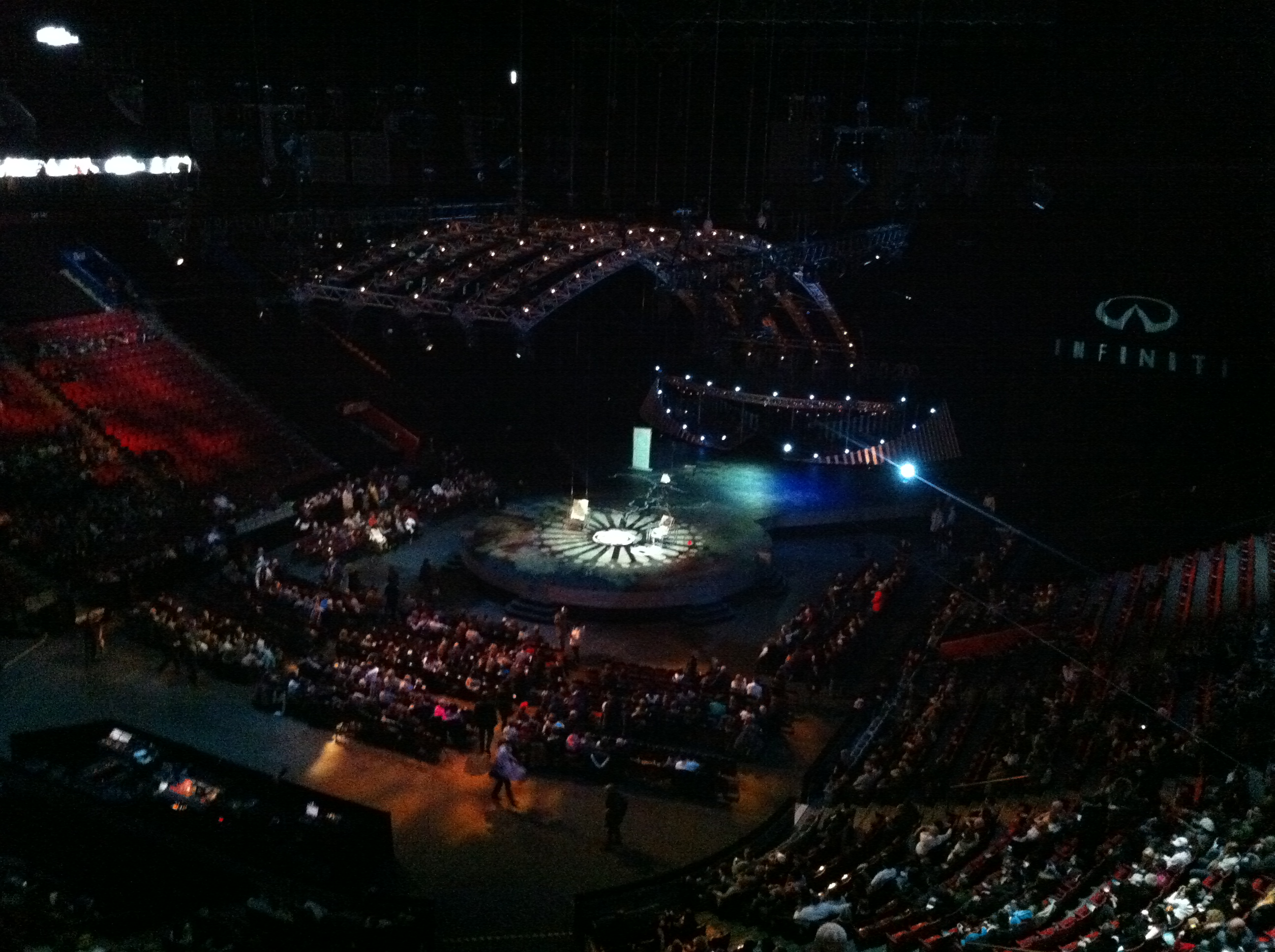 Quidam scene of the Cirque du Soleil at Bell Centre in Montreal, Quebec, Canada.